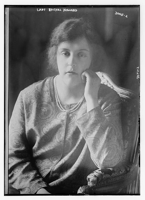 Lady Rachel Fitzalan-Howard, later Lady Rachel Pepys (1905-1992), daughter of the 15th Duke of Norfolk and a lady in waiting to Princess Marina, Duchess of Kent.